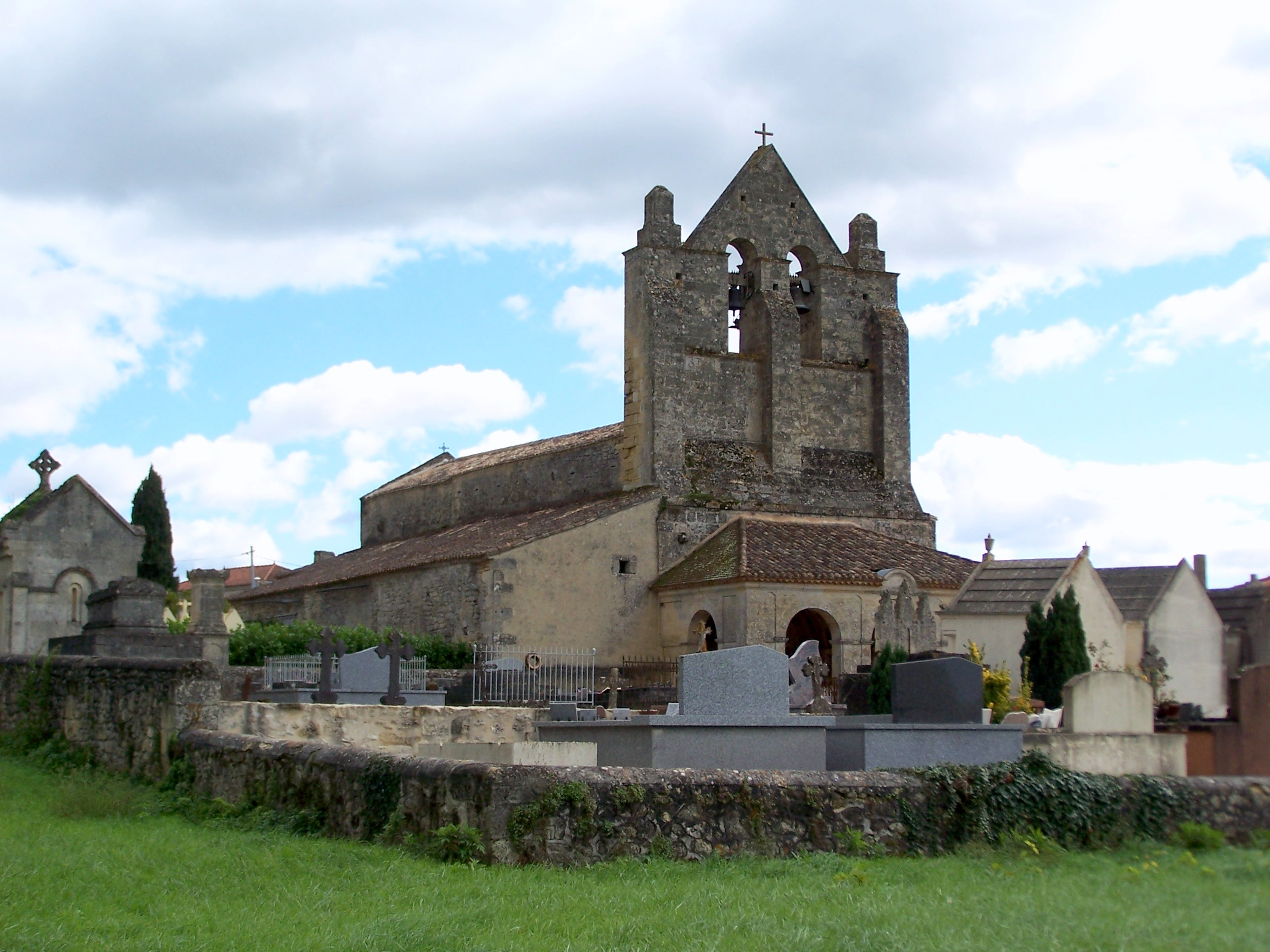 Saint Martin church of Lugasson (Gironde, France)